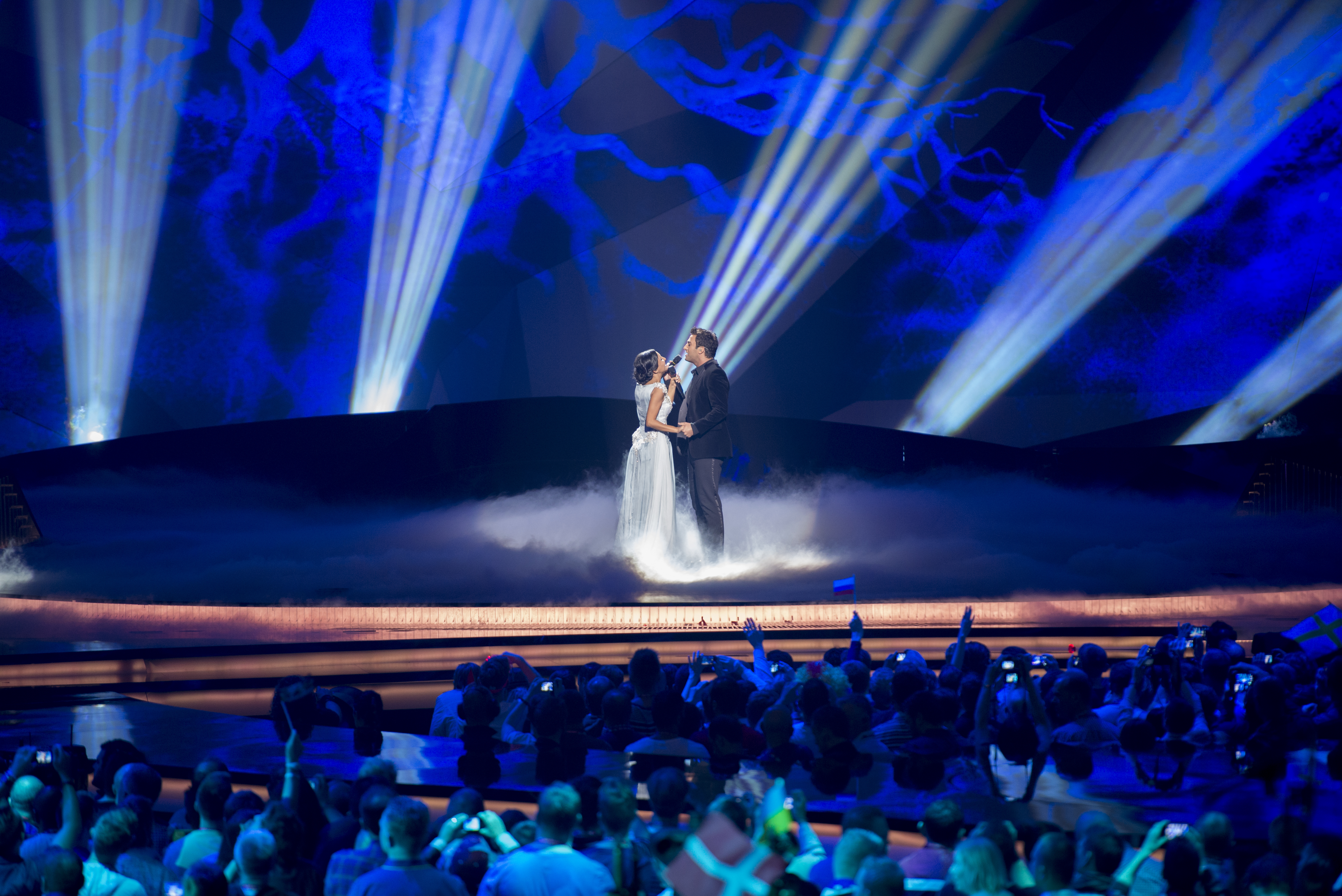 Nodi Tatishvili and Sophie Gelovani representing Georgia with the song "Waterfall" during the second dress rehearsal of the second semi final of the Eurovision Song Contest 2013 in Malmö. (Help translate this text)